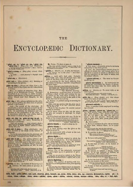 The Encyclopaedic Dictionary by Robert Hunter Vol IV 1884 First Page of Text